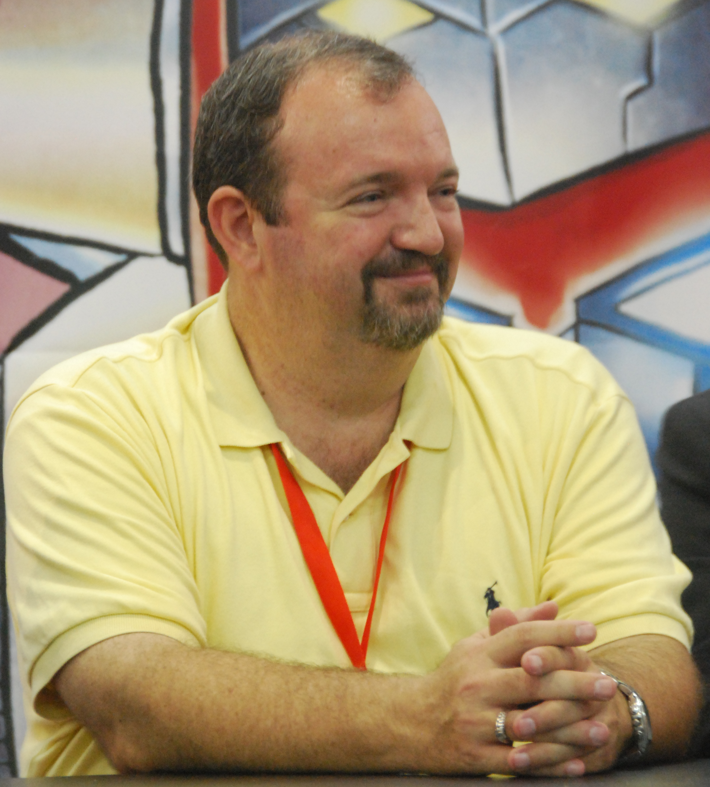 Tracy Hickman at Lucca Comics and Games 2008